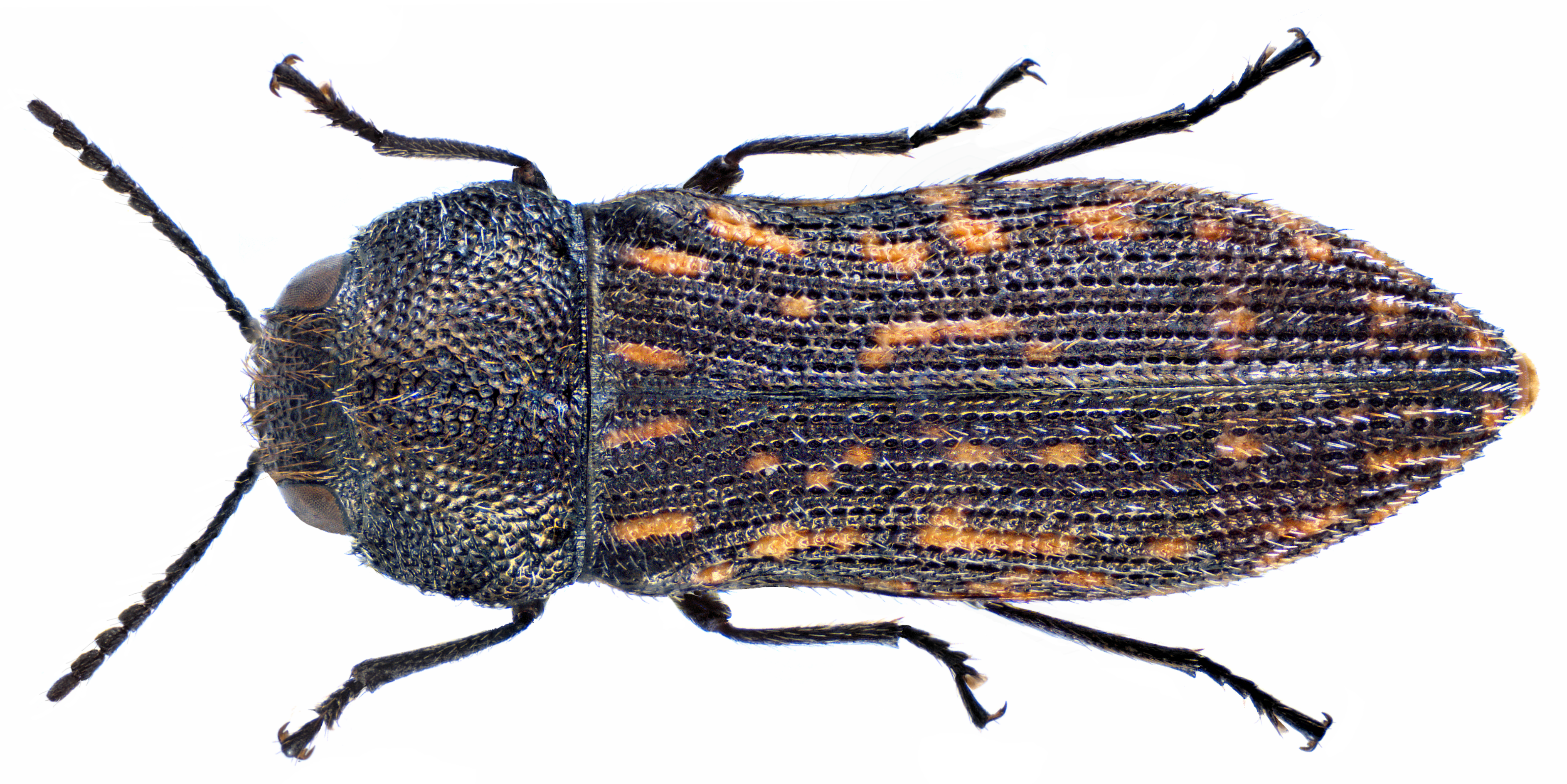 Family: Buprestidae Size: 5,3 mm Location: Spain, Canary Islands, Gran Canaria, 1,5 km northeast Ayacata, 1500 m leg. J.Schoenfeld, 17.III.2008; det. J.Schoenfeld, 2008 Photo: U.Schmidt, 2013